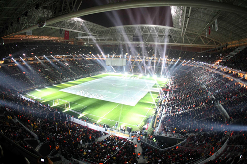 The Türk Telekom Arena in Istanbul is one of the finest multi-purpose stadiums in Turkey. The games, which cover a range of competition levels, are televised in HD and also need to fully satisfy UEFA criteria for hosting the European Football Championship in 2016.